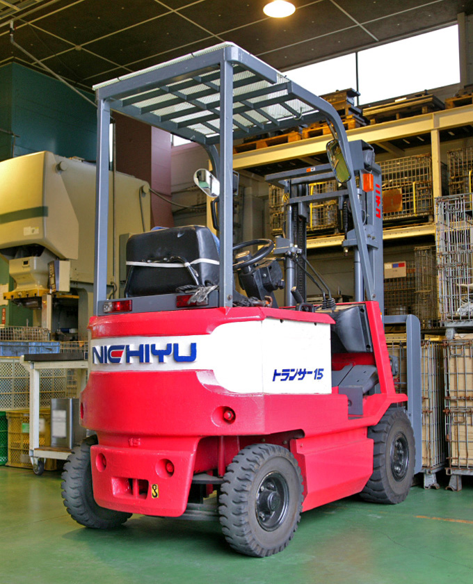 Nichiyu Transer FB15, 1.5 tonner Battery Fork-lift.